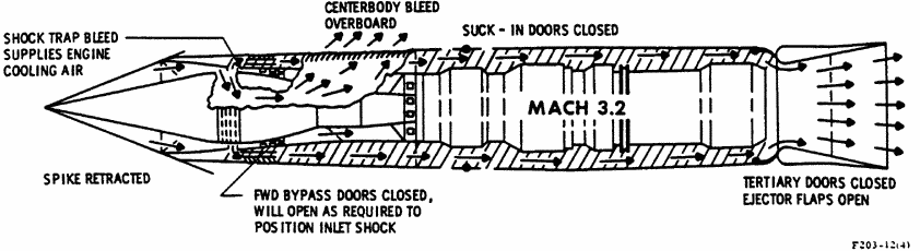 Excerpt of illustration showing Mach 3 airflow into the Pratt & Whitney J58 turbojet engine installed in the SR-71 Blackbird